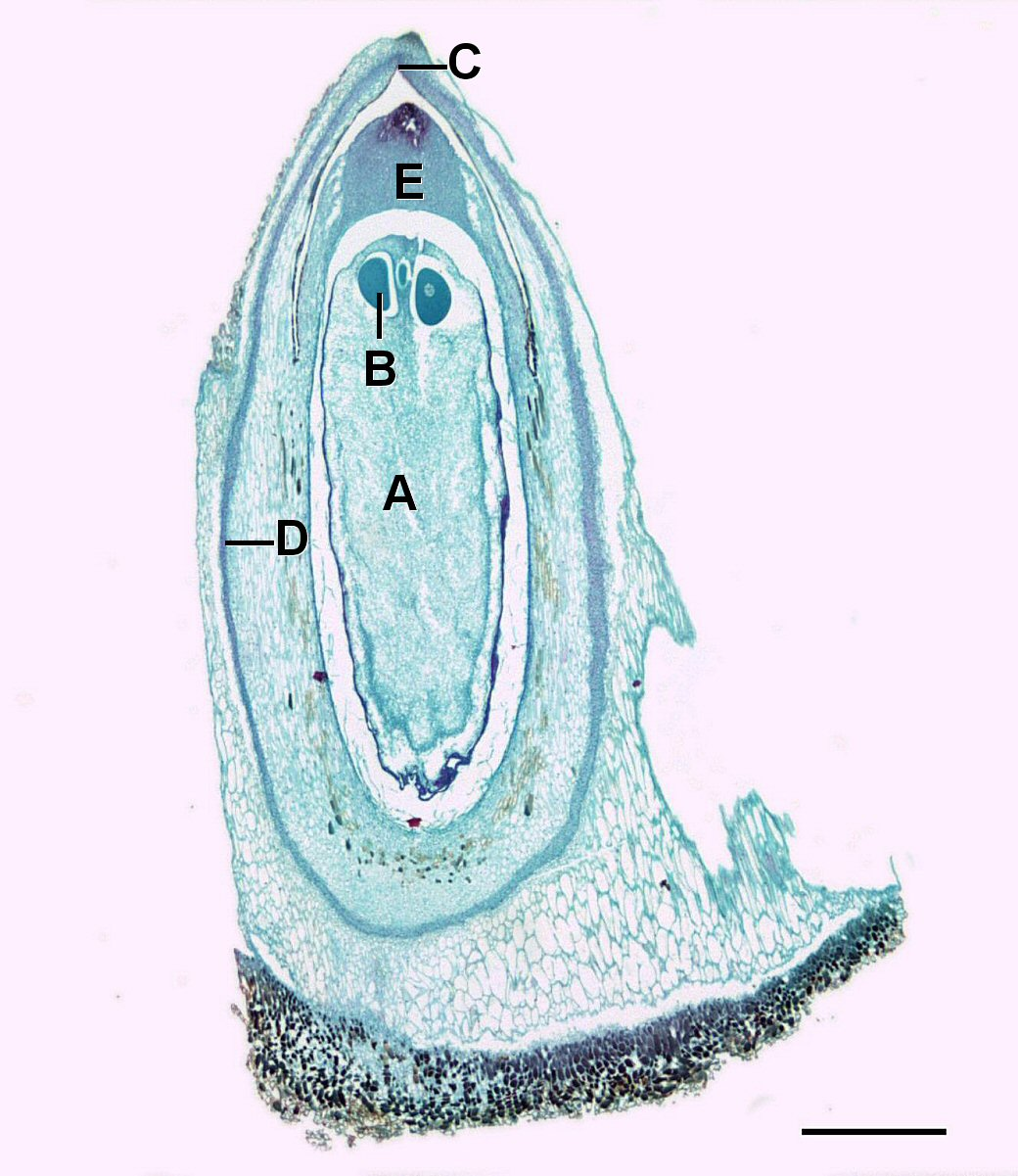 Photomicrograph of a Pinus ovule. A=Gametophyte, B=Egg cell, C=Micropyle, D=Integument, E=Megasporangium. Scale=0.8mm.